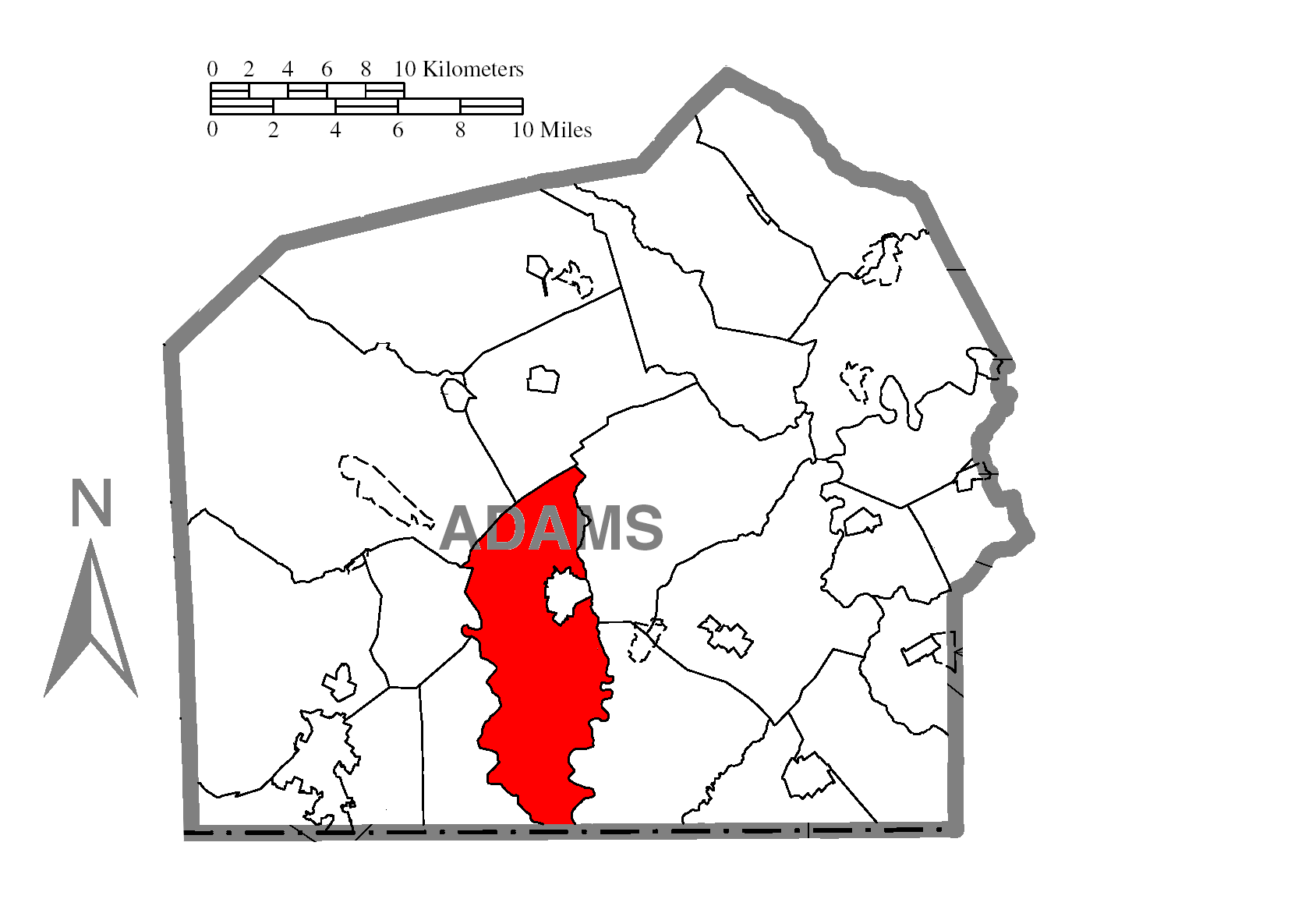 A map of Adams County showing Cumberland Township, Pennsylvania (alternate) highlighted on the map.